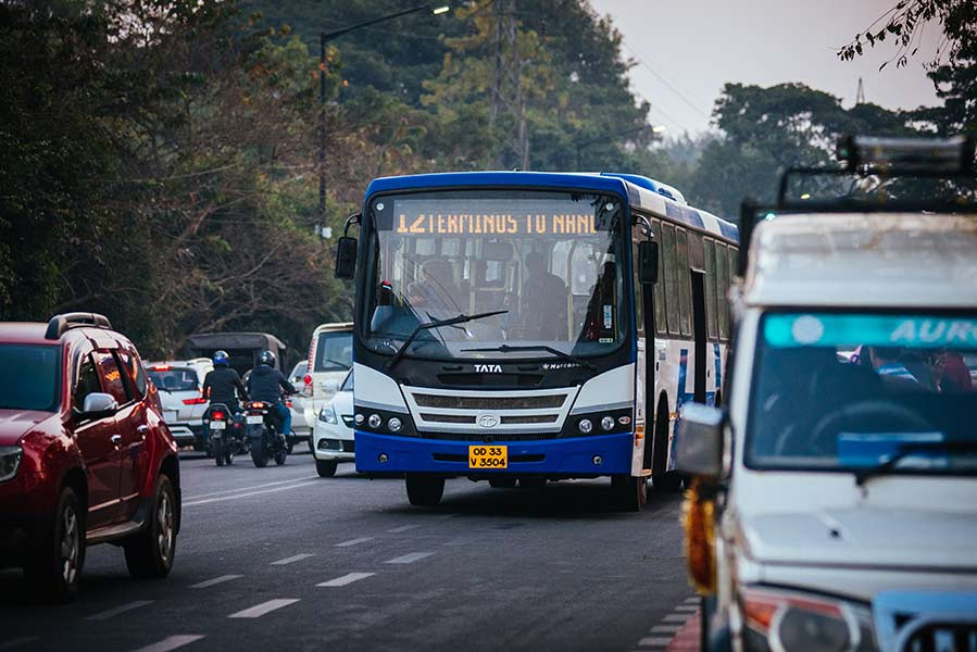 MoBus AC Bus